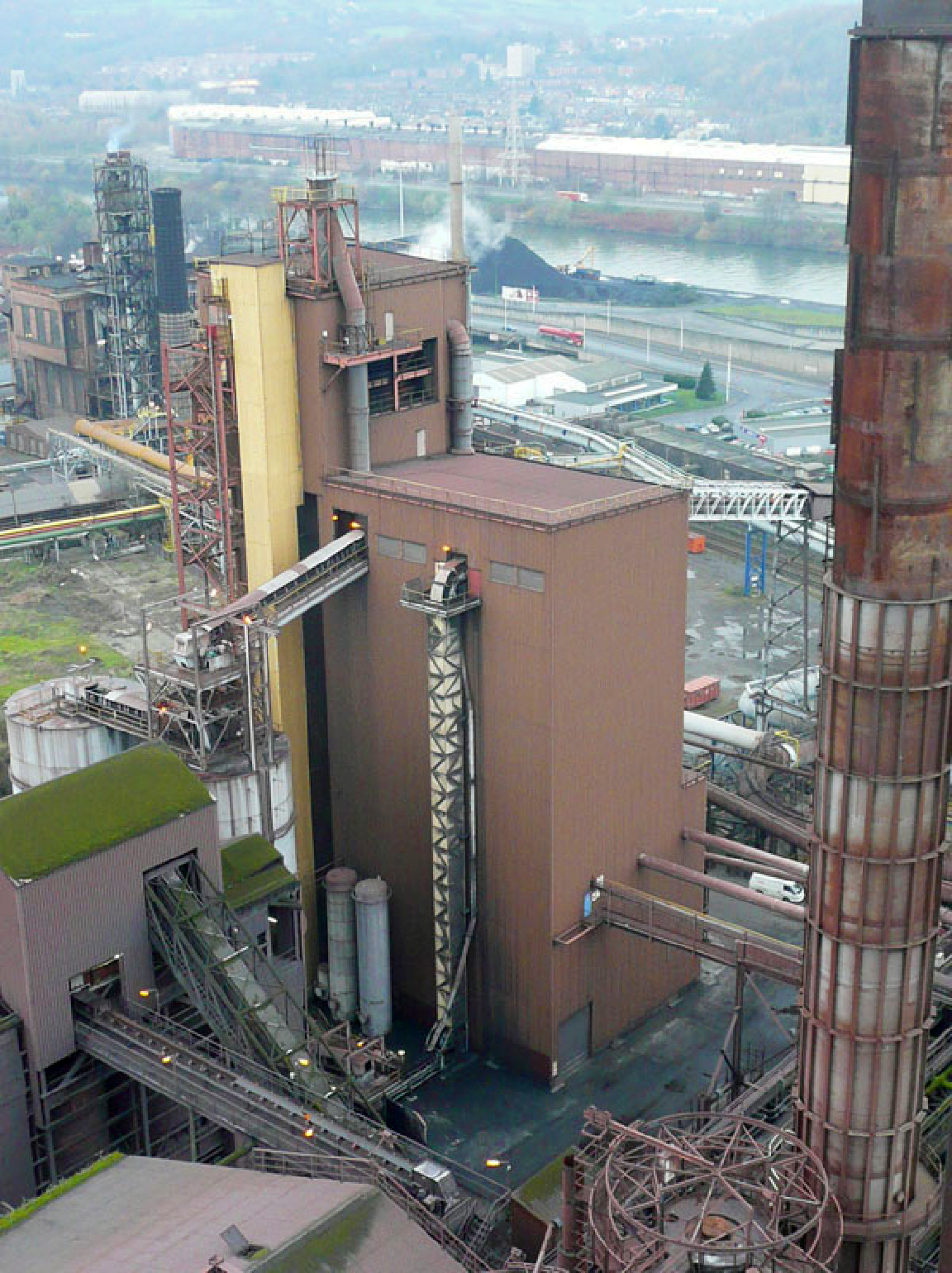 View on the PCI (Pulverized Coal Injection) grinding plant, which mills the coal injected in the tuyeres.